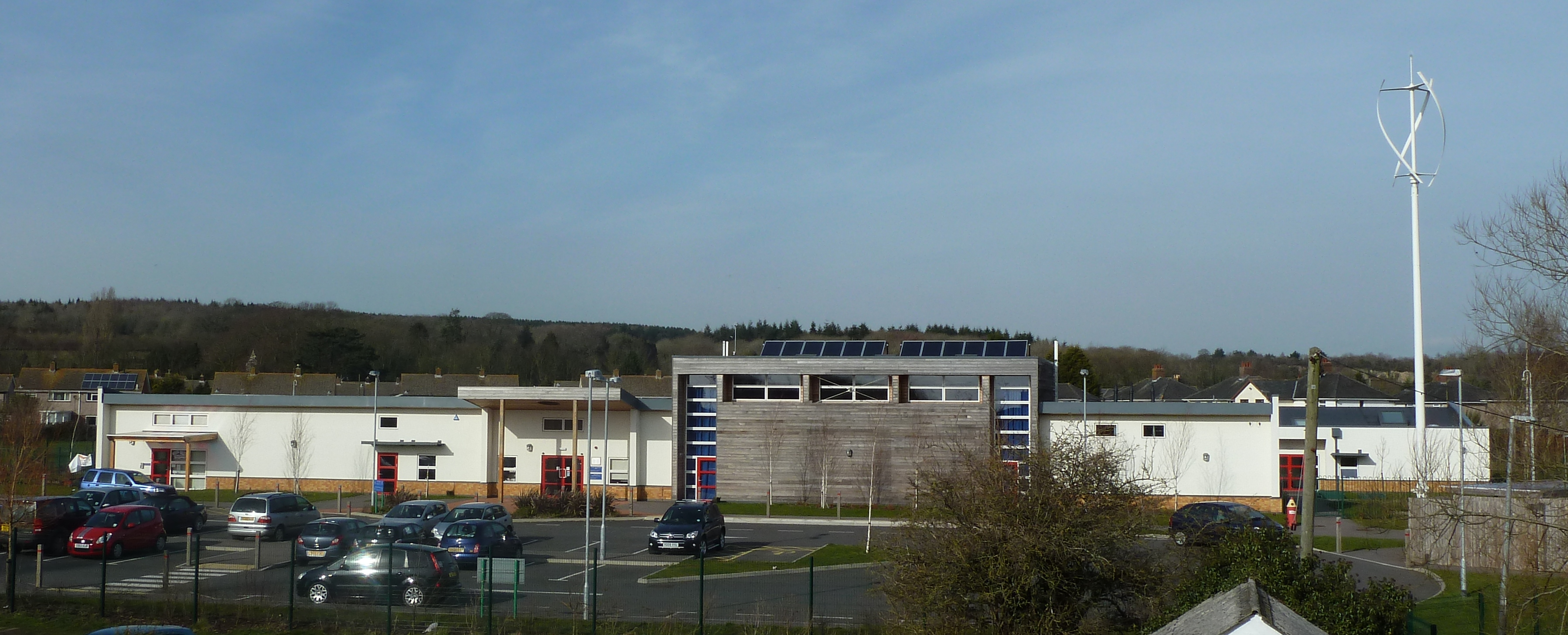 Rogiet primary school. Note the rooftop solar panels and the quietrevolution qr5 vertical-axis wind turbine to the right.